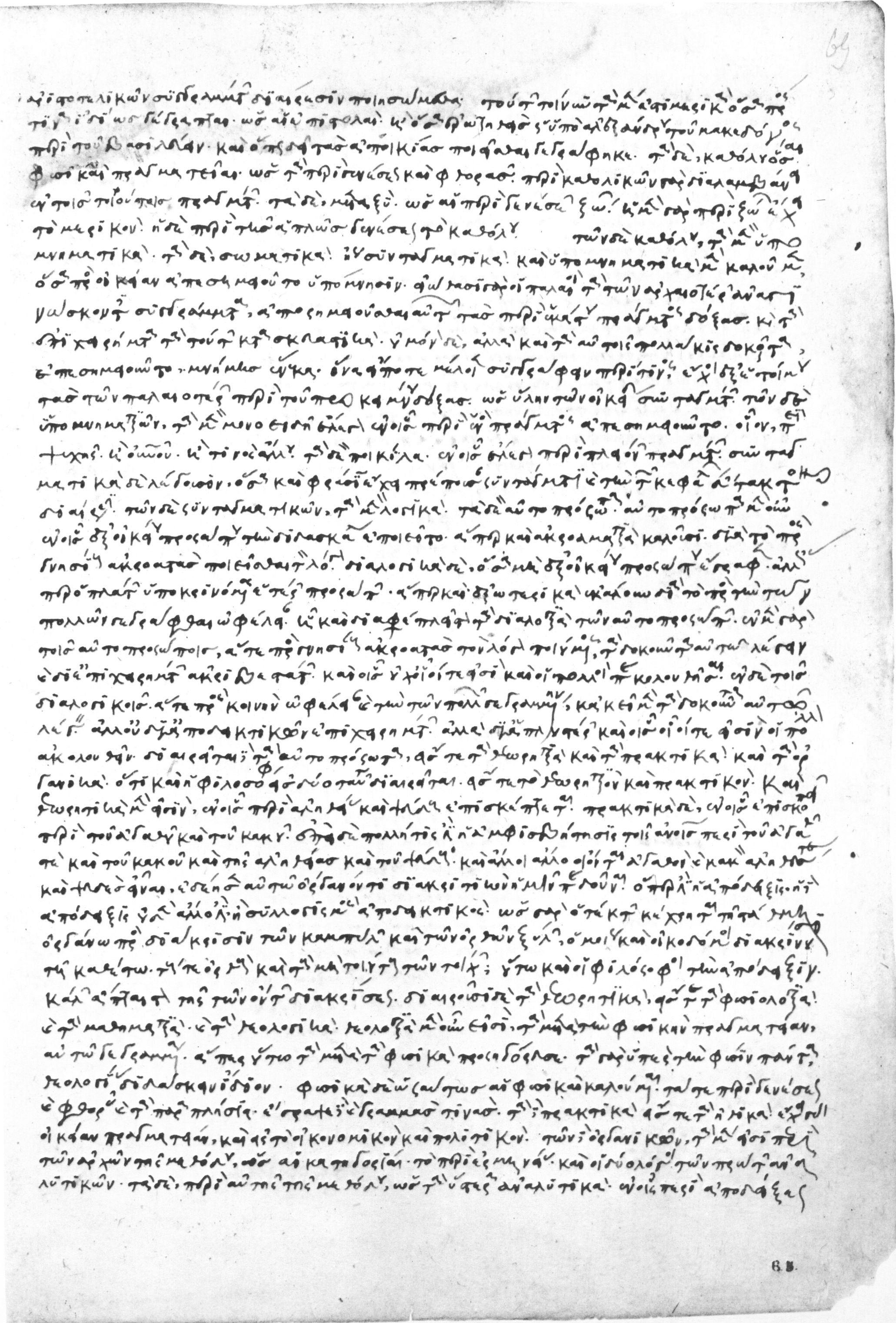 John Philoponus, Commentary on Aristotle’s Categories, in ms. Milan, Biblioteca Ambrosiana, D 54 sup., fol. 65r.